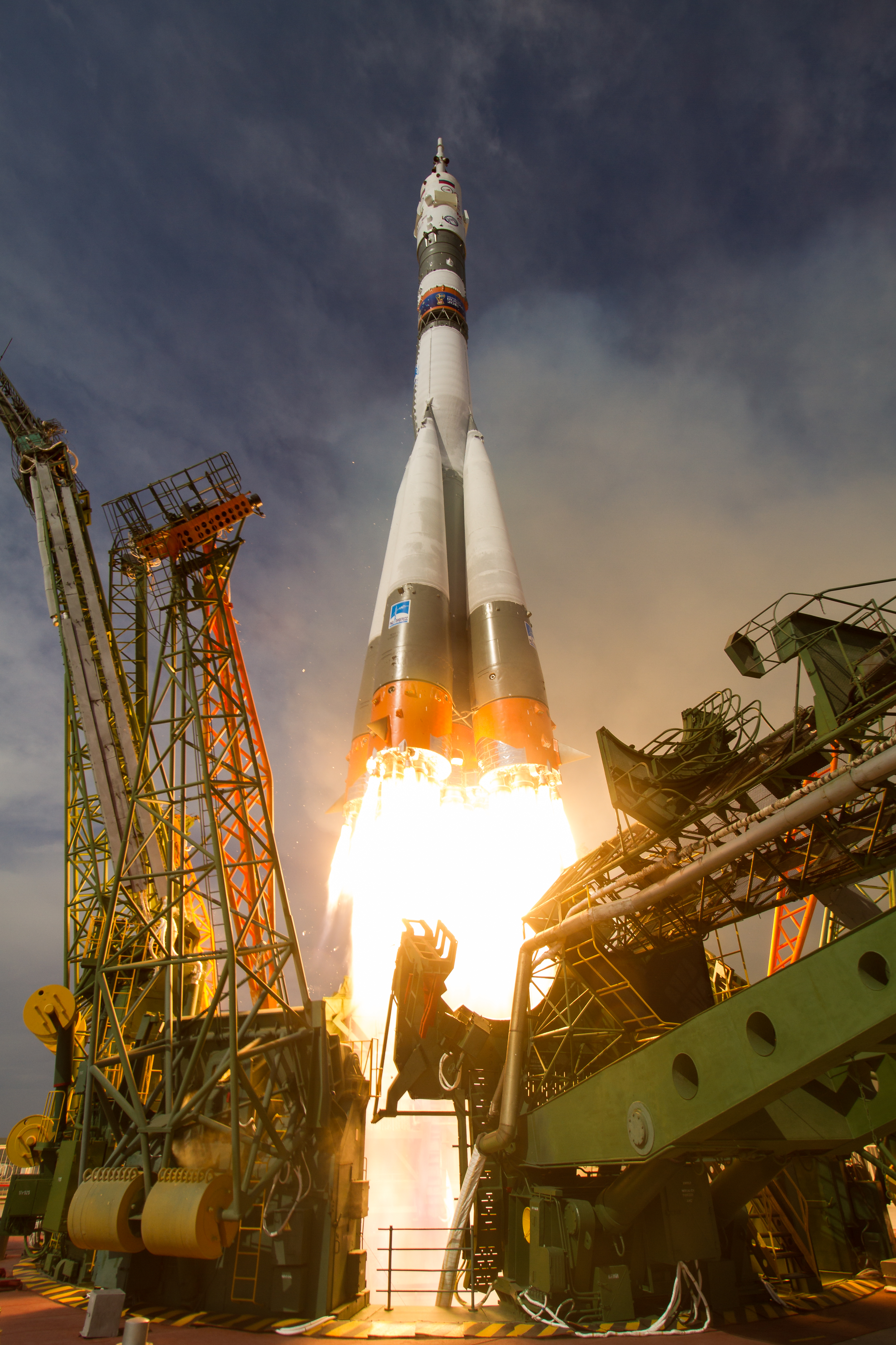 The Soyuz MS-09 rocket is launched with Expedition 56 Soyuz Commander Sergey Prokopyev of Roscosmos, flight engineer Serena Auñón-Chancellor of NASA, and flight engineer Alexander Gerst of ESA (European Space Agency), Wednesday, June 6, 2018 at the Baikonur Cosmodrome in Kazakhstan. Prokopyev, Auñón-Chancellor, and Gerst will spend the next six months living and working aboard the International Space Station.